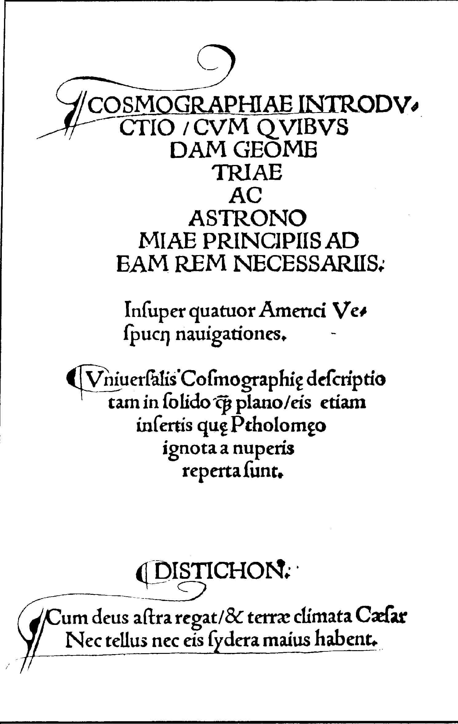 Cosmographiae Introduction (cover of booklet by Martin Waldseemüller, 1507)